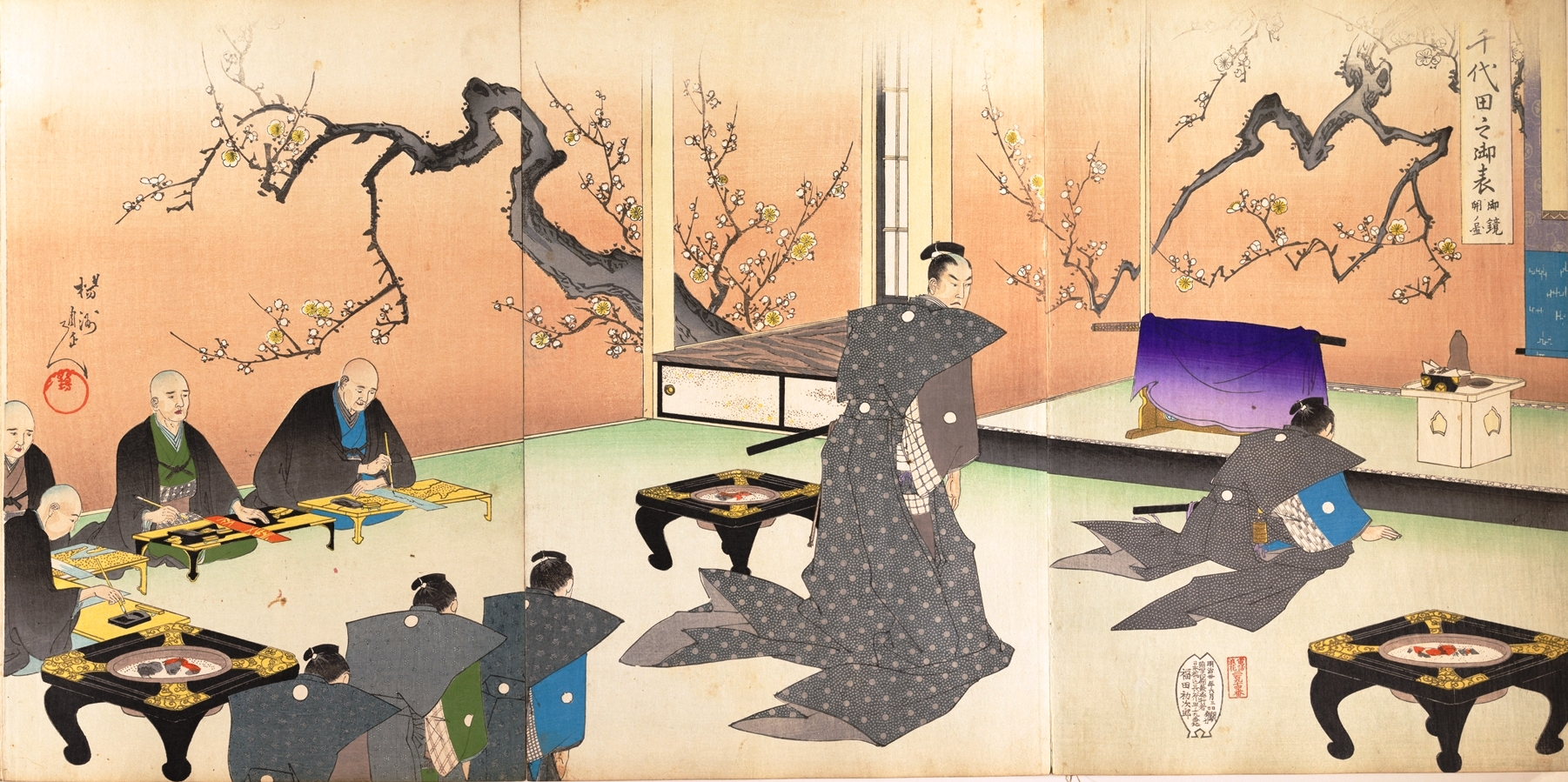 Ukiyo-e (Japanese woodblock print), "Kagamibiraki no zu (New Year's Kagamibiraki Ceremony)" by Yōshū Chikanobu (1838–1912) from "Chiyoda no on omote (The central office of the Edo castle)" - L. (page) 13 7/8 in. (35.2 cm); W. (page) 9 1/4 in. (23.4 cm); thickness of album 1 9/16 in. (4 cm) - 1897. The album, which consists of 99 pieces of Ukiyo-e, was a best-seller in the Meiji period.